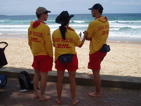 Three lifeguards (life savors) patrolling a beach in Sydney, Australia.